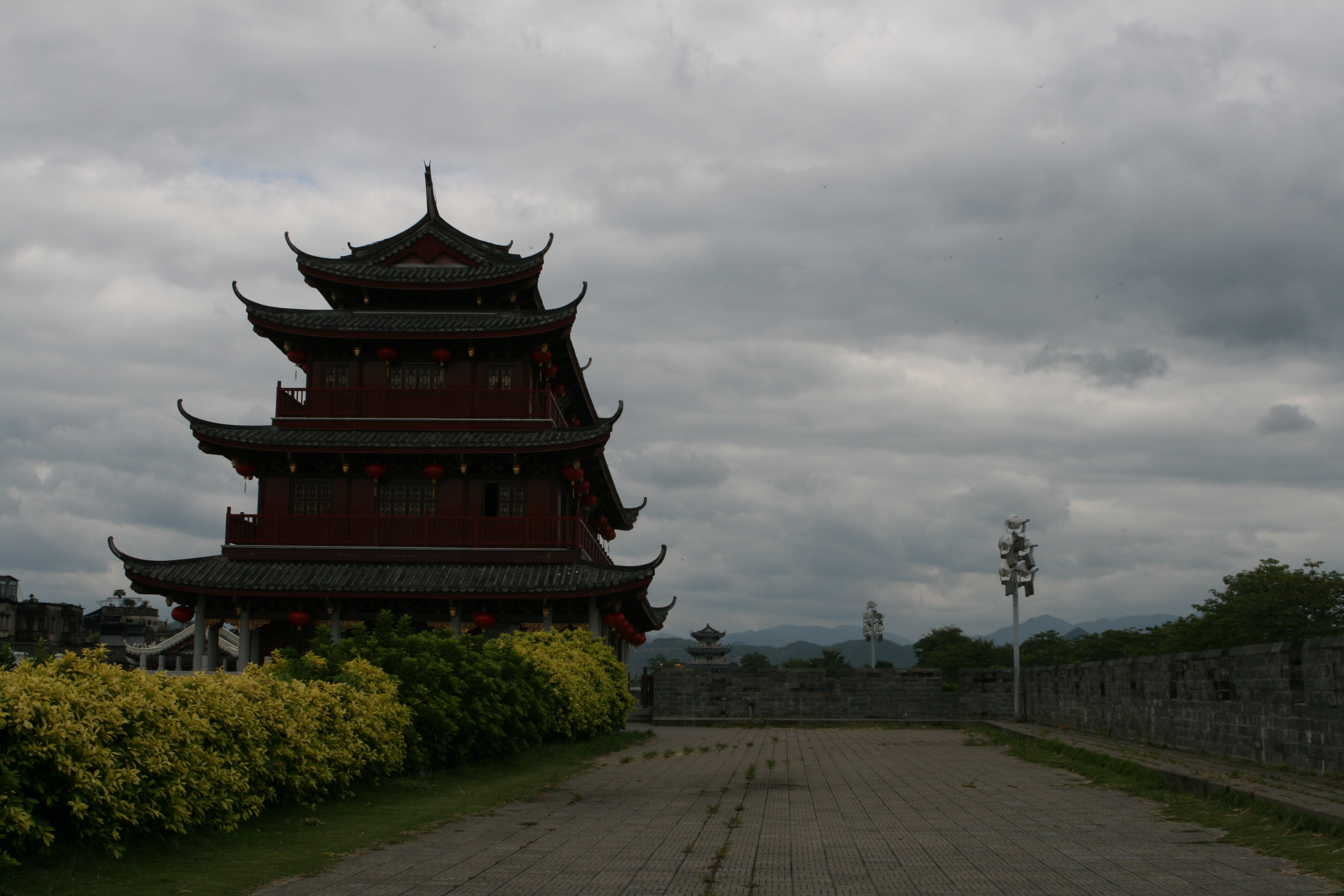 Guangji Gate of Chaozhou